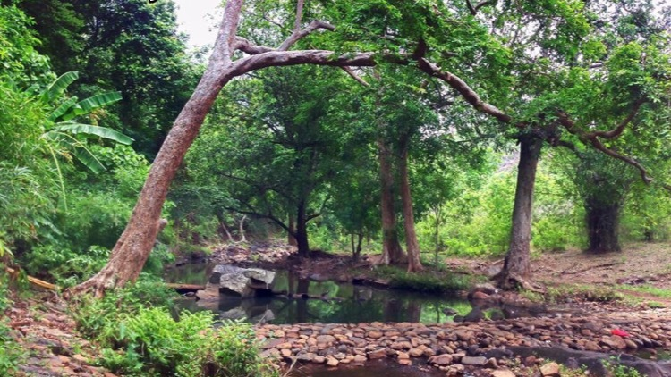 Jakam, Kalahandi